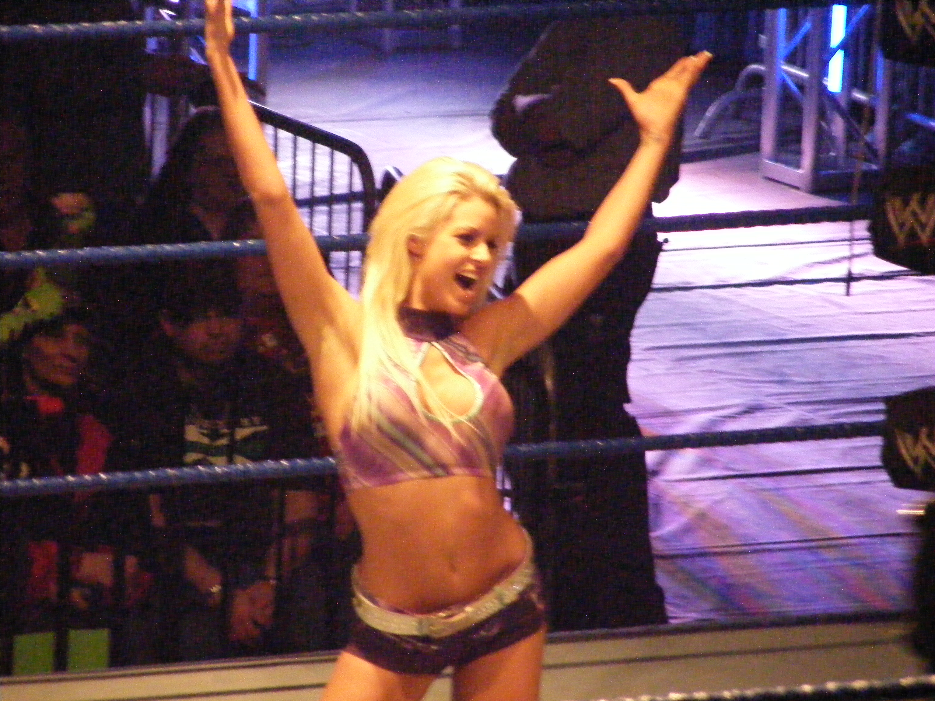 WWE Diva and professional wrestler Maryse (full name Maryse Ouellet) celebrating after retaining the WWE Divas Championship at a WWE live event in Burlington, Vermont on February 28, 2009